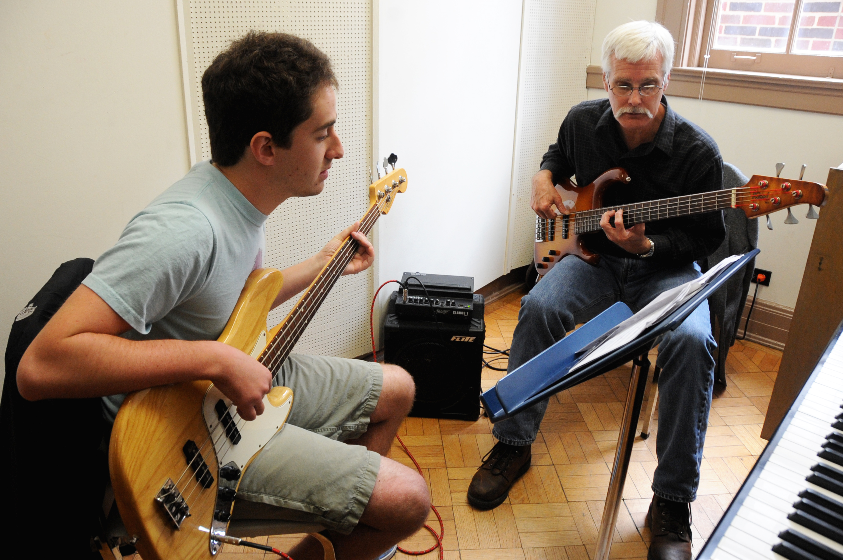 Music lesson on electric guitar, Tulane University. Left: Alon Shapiro (senior) Right: Jim Markway - Adjunct professor